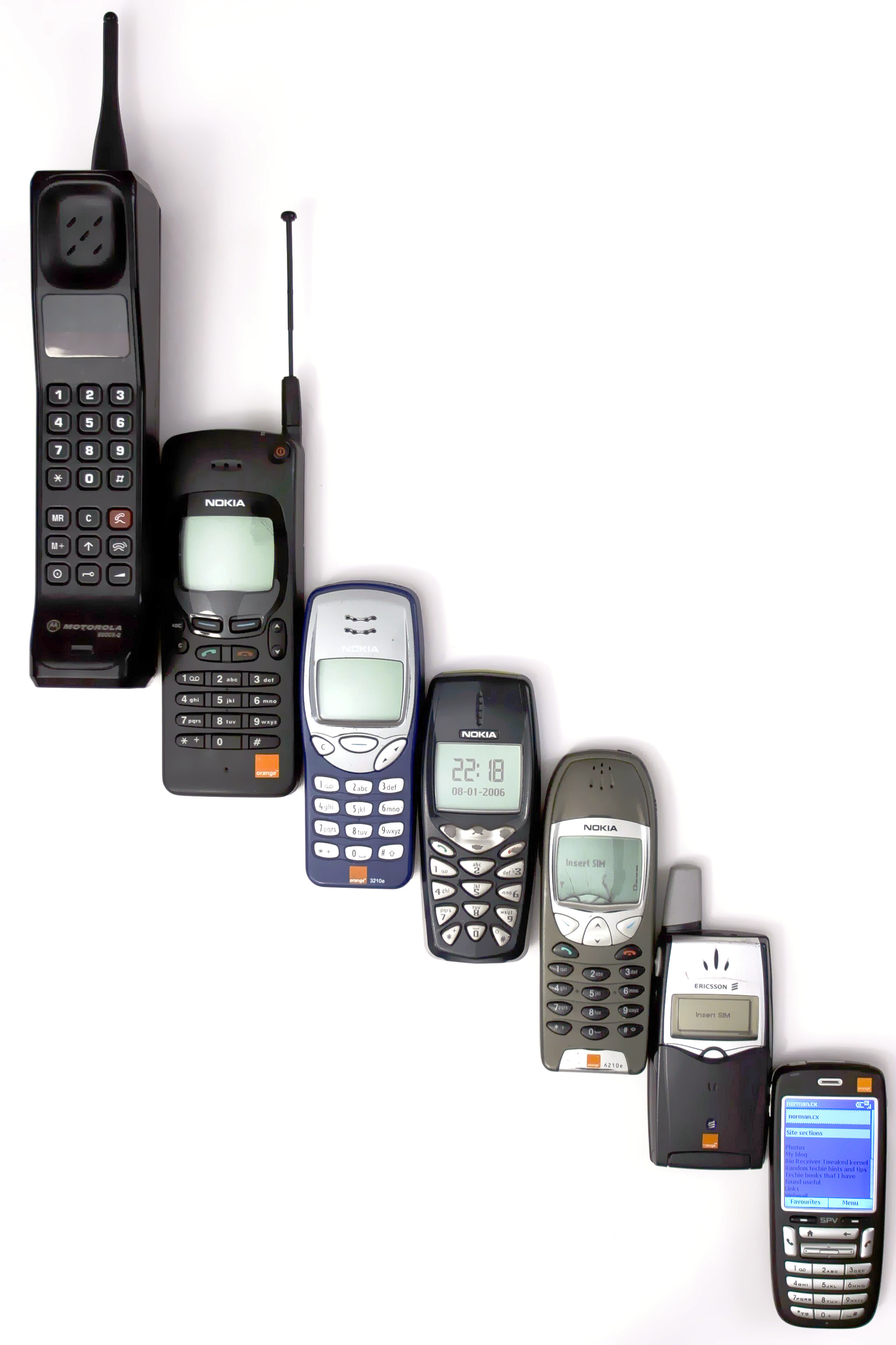 Mobile phone evolution, respectively, from left to right: Motorola 8900X-2, Nokia 2146 orange 5.1, Nokia 3210, Nokia 3510, Nokia 6210, Ericsson T39, HTC Typhoon